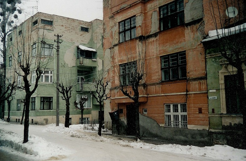 Dwelling houses in Chernivtsi